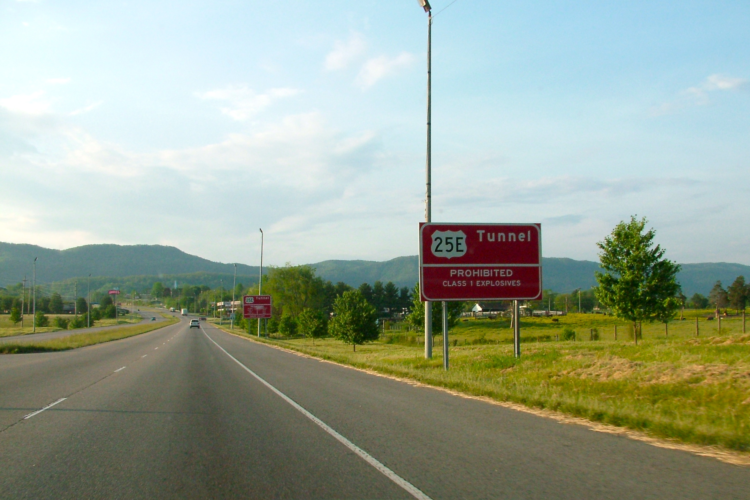 Red warning signs along U.S. 25E approaching the Cumberland Gap Tunnel warning that Class I Explosives are prohibited from using the tunnel. The sign in the background permits Class 2 through 9 hazardous material and vehicles over 8'6" wide by escort only.